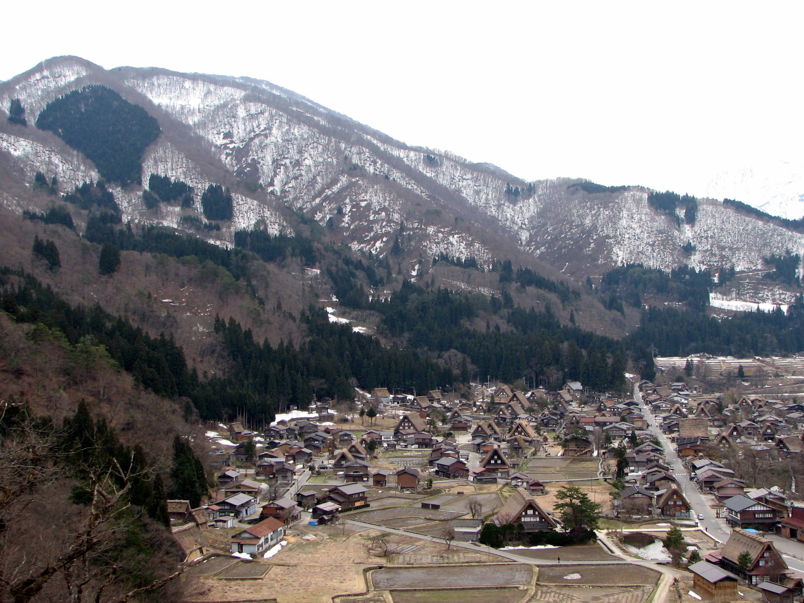 Ogimachi Village, view from Shiroyama Viewpoint, Shirakawa-go, Gifu Prefecture, Japan